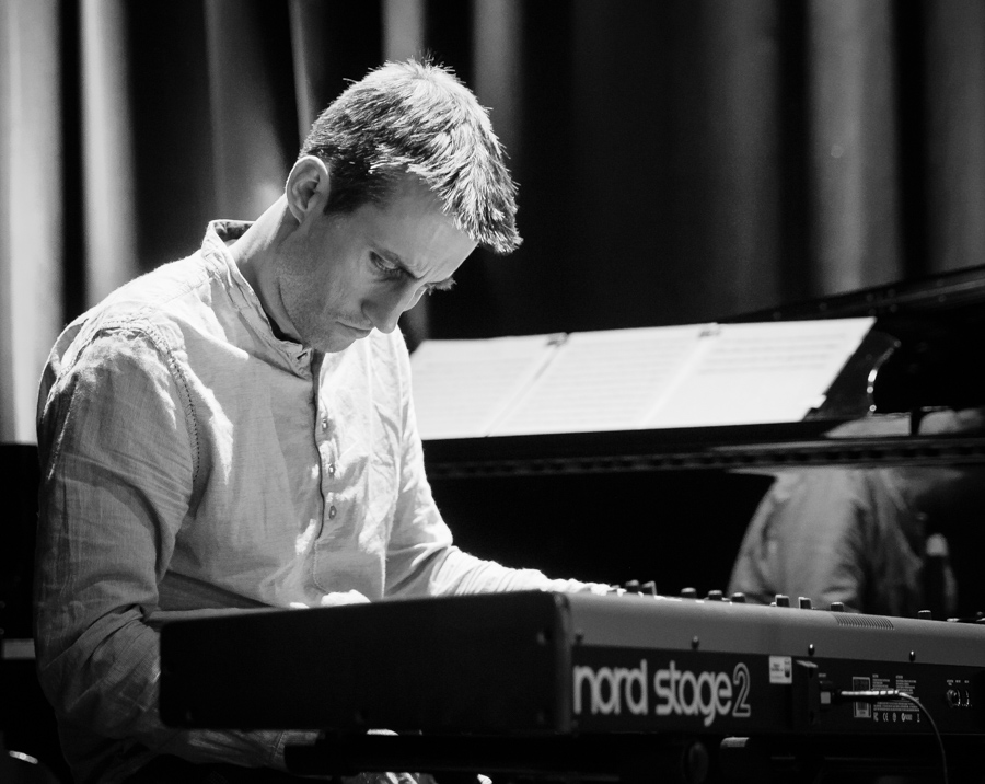 Alexander Hawkins at the stage with Mulatu Astatke at Cosmopolite in Soria Moria. The concert took place on 09. November 2017. The concert was part of Cosmpolite's 25 year jubilee week. Lineup: Mulatu Astatke (vibraphone) James Arben (saxophone) Shanti Jayasinha (trumpet) Alexander Hawkins (piano) Ben Trigg (cello) Neil Charles (double bass) Tom Skinner (drums) Richard Olatunde Baker (percussion)